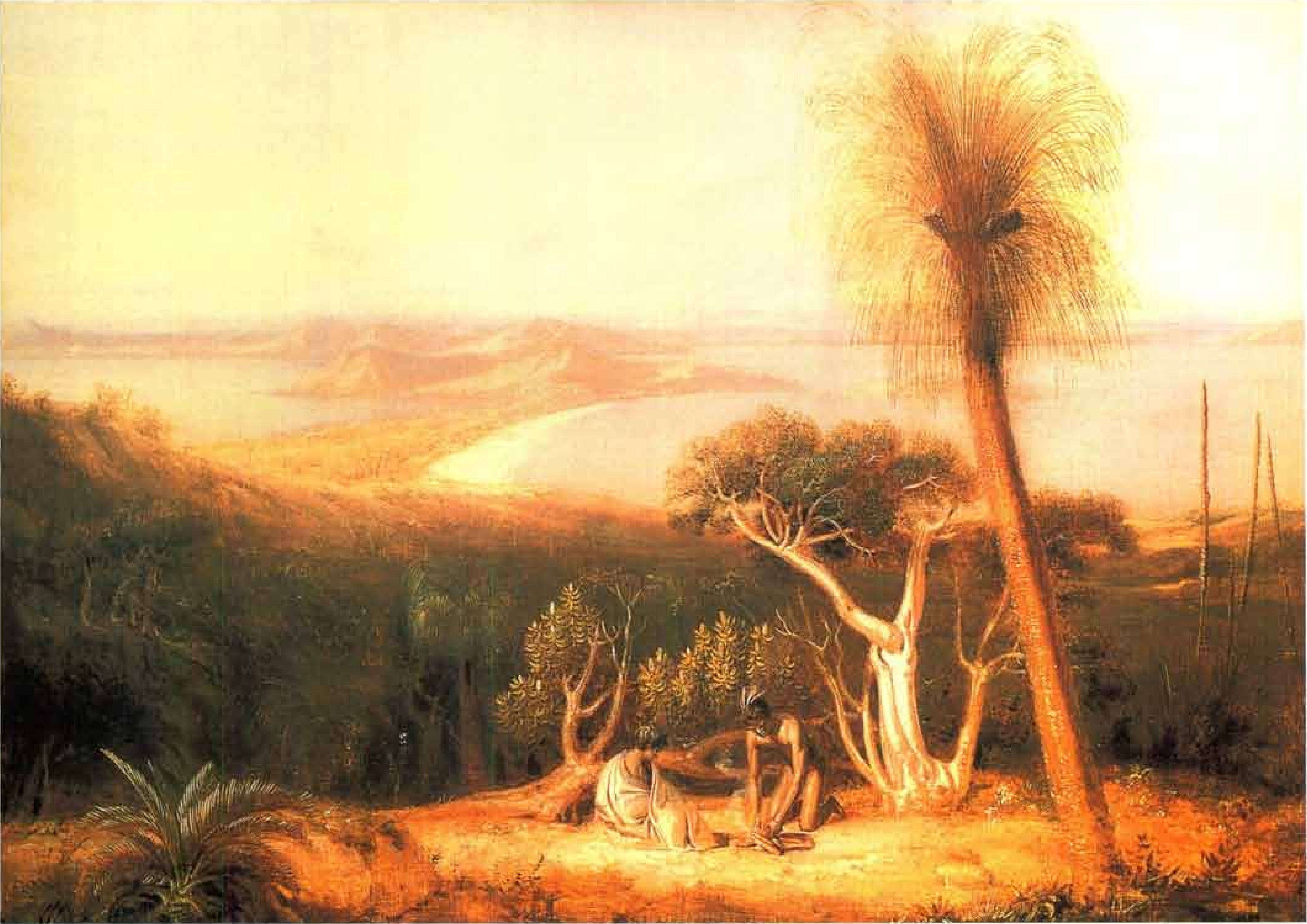 Part of King George III Sound, on the South Coast of New Holland, December 1801 by William Westall. Painted between 1809 and 1812 under Admiralty commission, it is a 61 x 86.5 cm oil-on-canvas painting. It is part of the Ministry of Defence Art Collection. It depicts King George Sound on the south coast of Western Australia. Specifically, it is a view looking north-north-west from Peak Head, across Torndirrup and Vancouver Peninsula towards the mainland. The people in the foreground are Australian Aborigines, stylised according to the noble savage tradition. The shrub on the left is Macrozamia riedlei; the shrub in the centre is Banksia verticillata. The tree just right of centre is a Eucalyptus; on the right is the grass-tree Kingia australis, then a group of Xanthorrhoea preissii grass-trees. This painting is based on Westall's field sketch King George's Sound, View from Peak Head, and was itself the basis of the engraving View from the south side of King George's Sound.